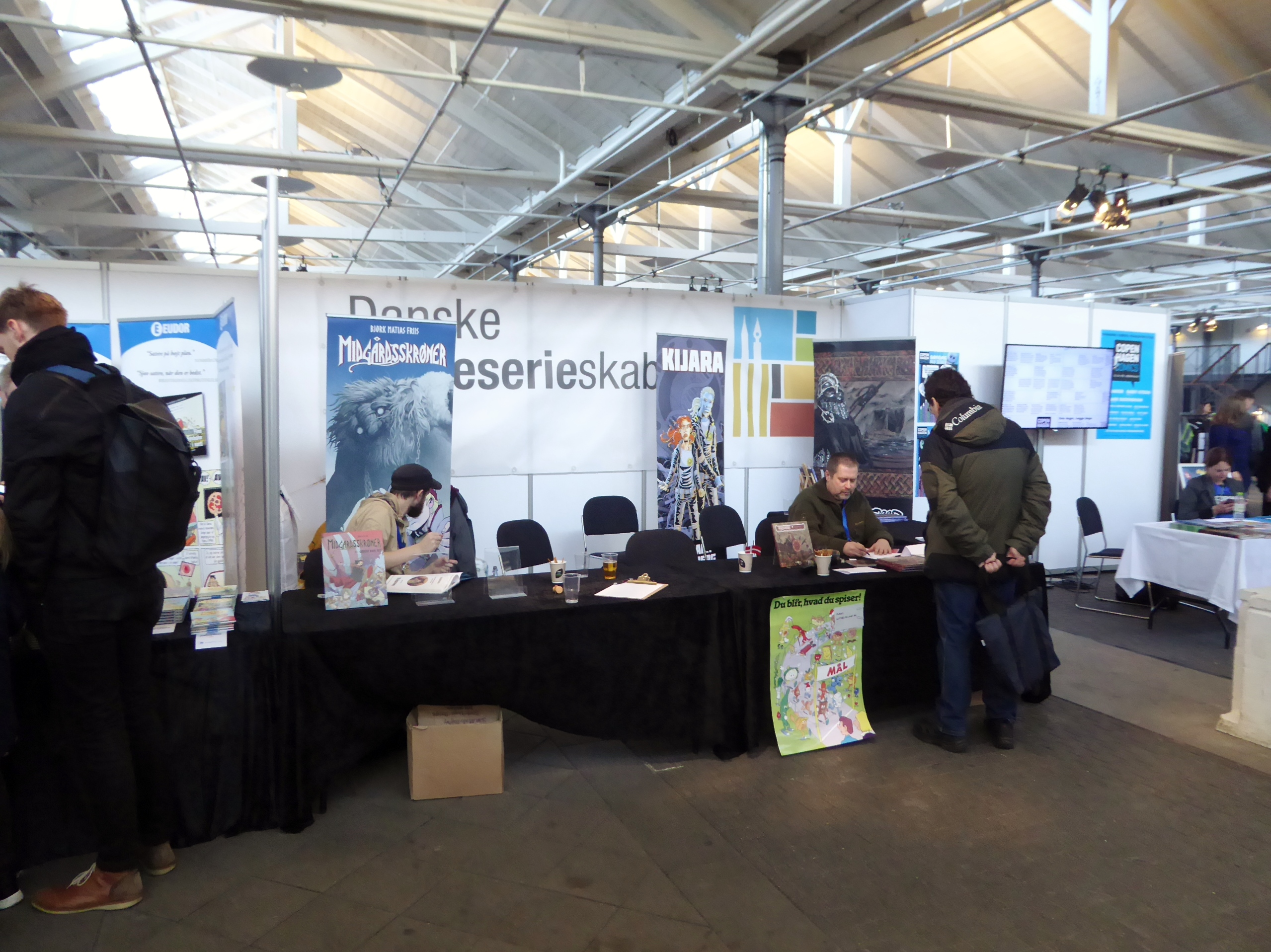 The organization of Danish comics creators at the event Copenhagen Comics in Øksnehallen in Copenhagen.